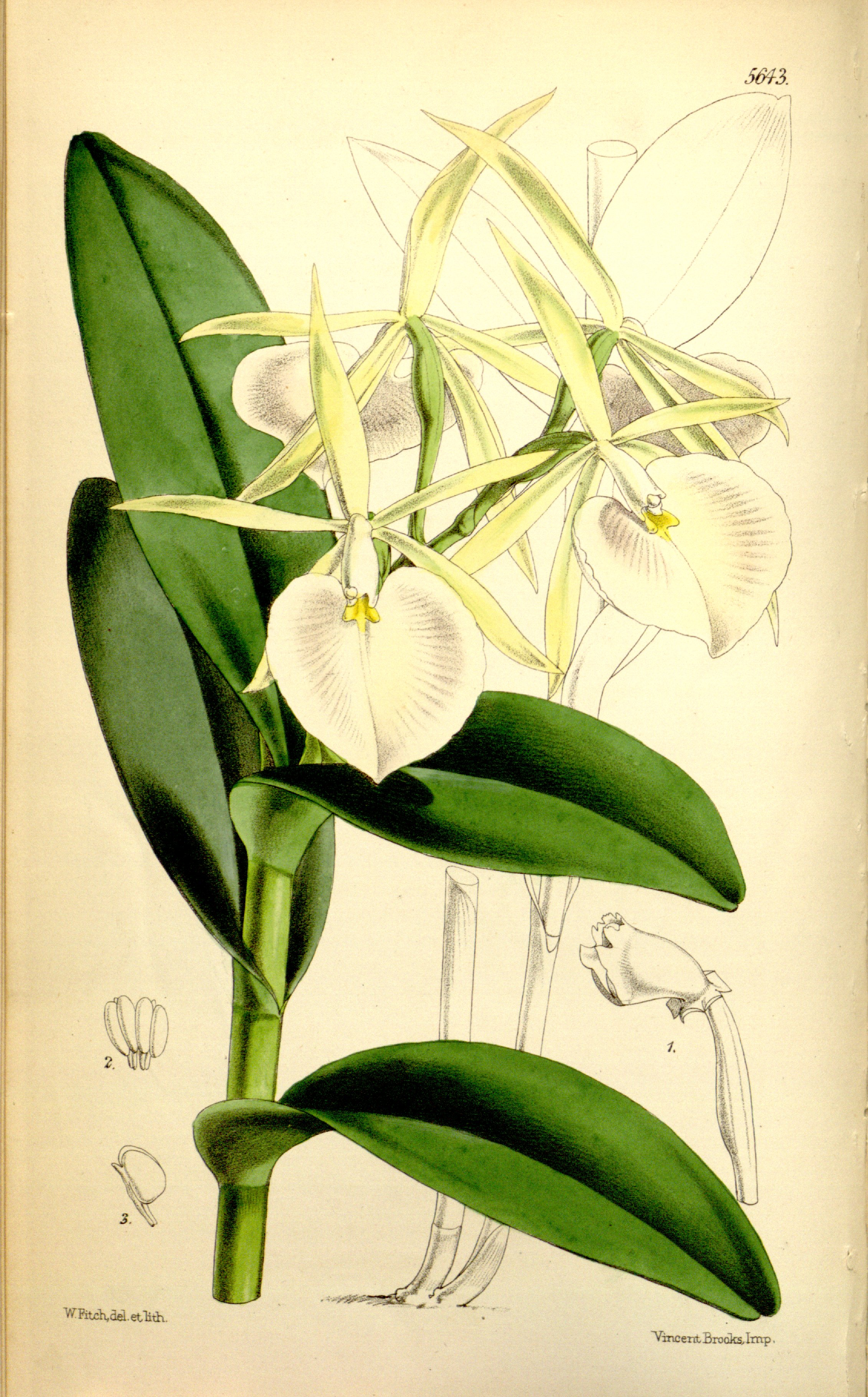 Illustration of Epidendrum eburneum